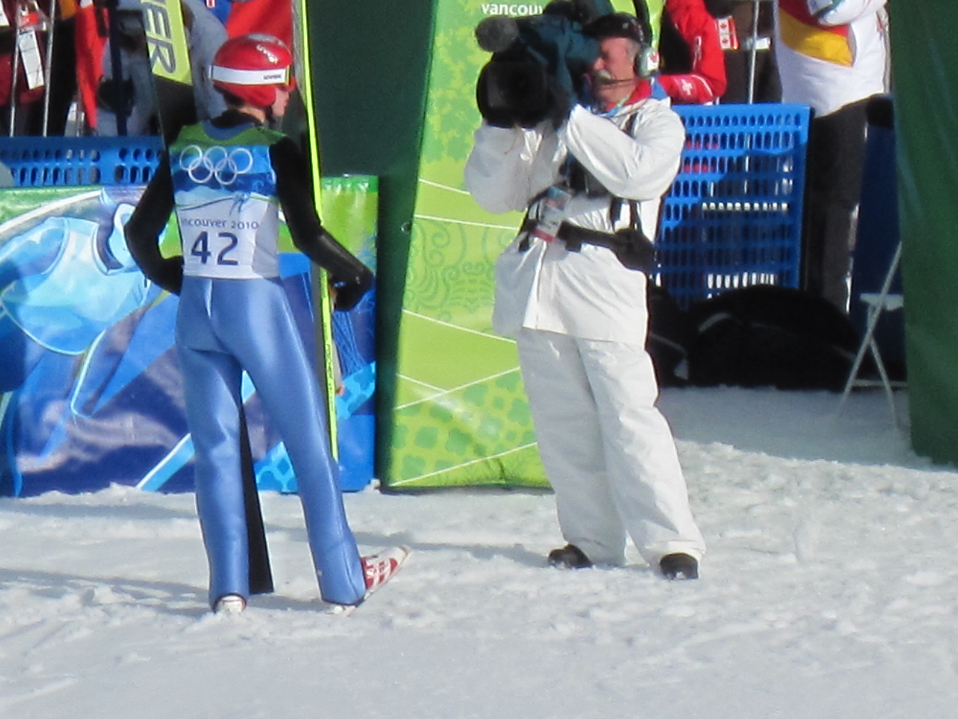 Kamil Stoch at 2010 Winter Olympics.